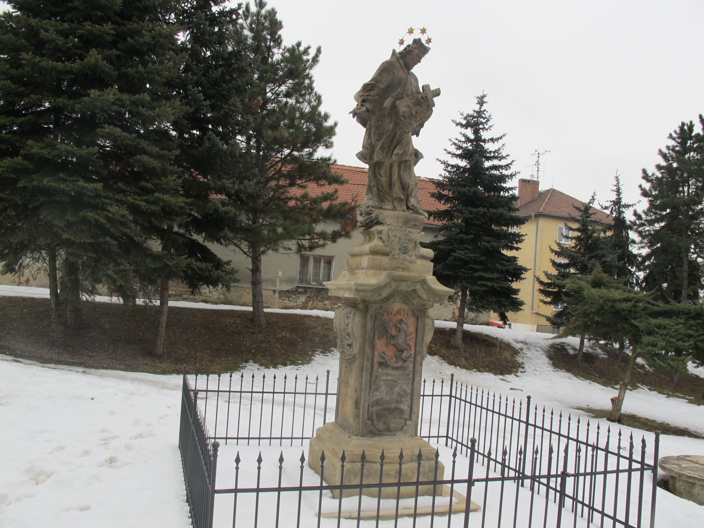 St. John Nepomuk Statue in Koštice